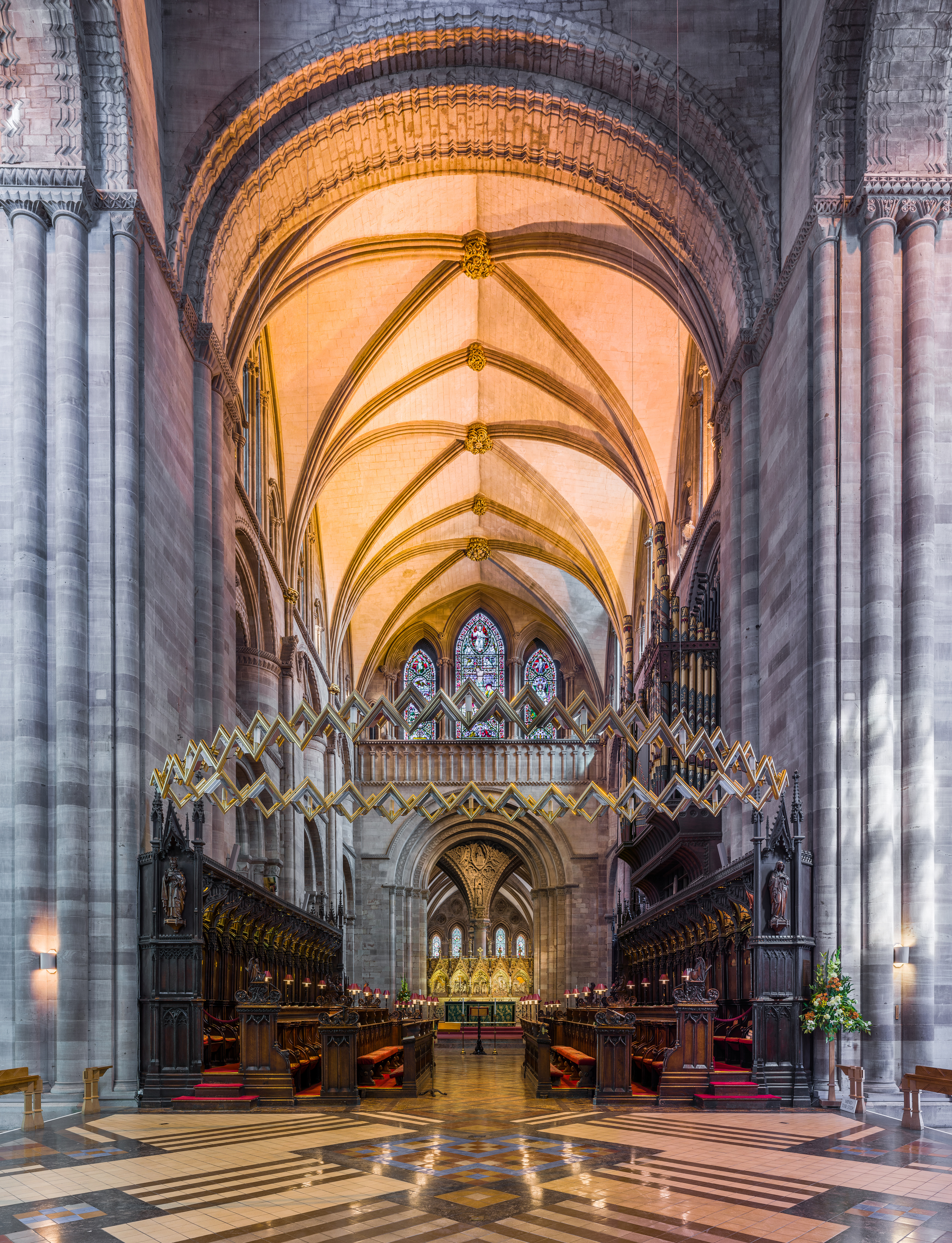 The choir in Hereford Cathedral, Herefordshire, England.